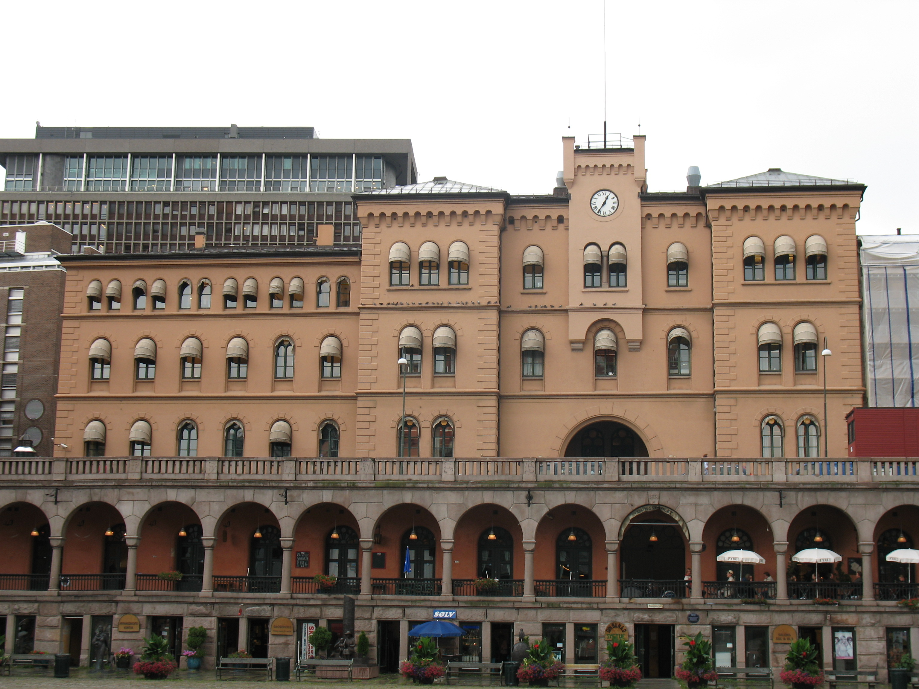 The old police station in Møllergaten 19 in Oslo, Norway.